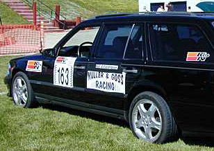 1988 Mercedes 360TE AMG wagon at the inaugural Gold Rush Challenge Sept. 15, 2001